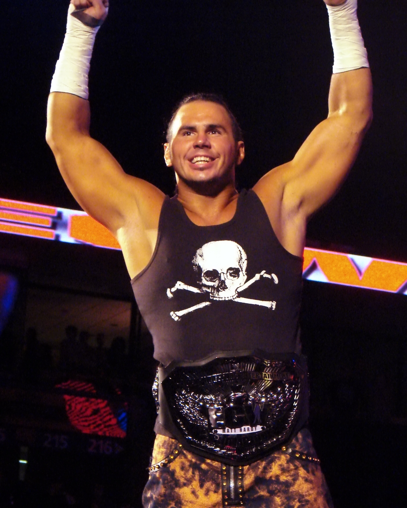 Matt Hardy at an ECW taping. Bradley Center; Milwaukee, Wisconsin. Taken by myself. Rotated, cropped, and brightened.